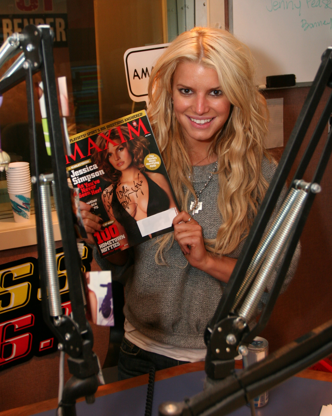 Jessica Simpson holds a Maxim Magazine with her picture on the cover while at KISS 106.1 in Seattle.